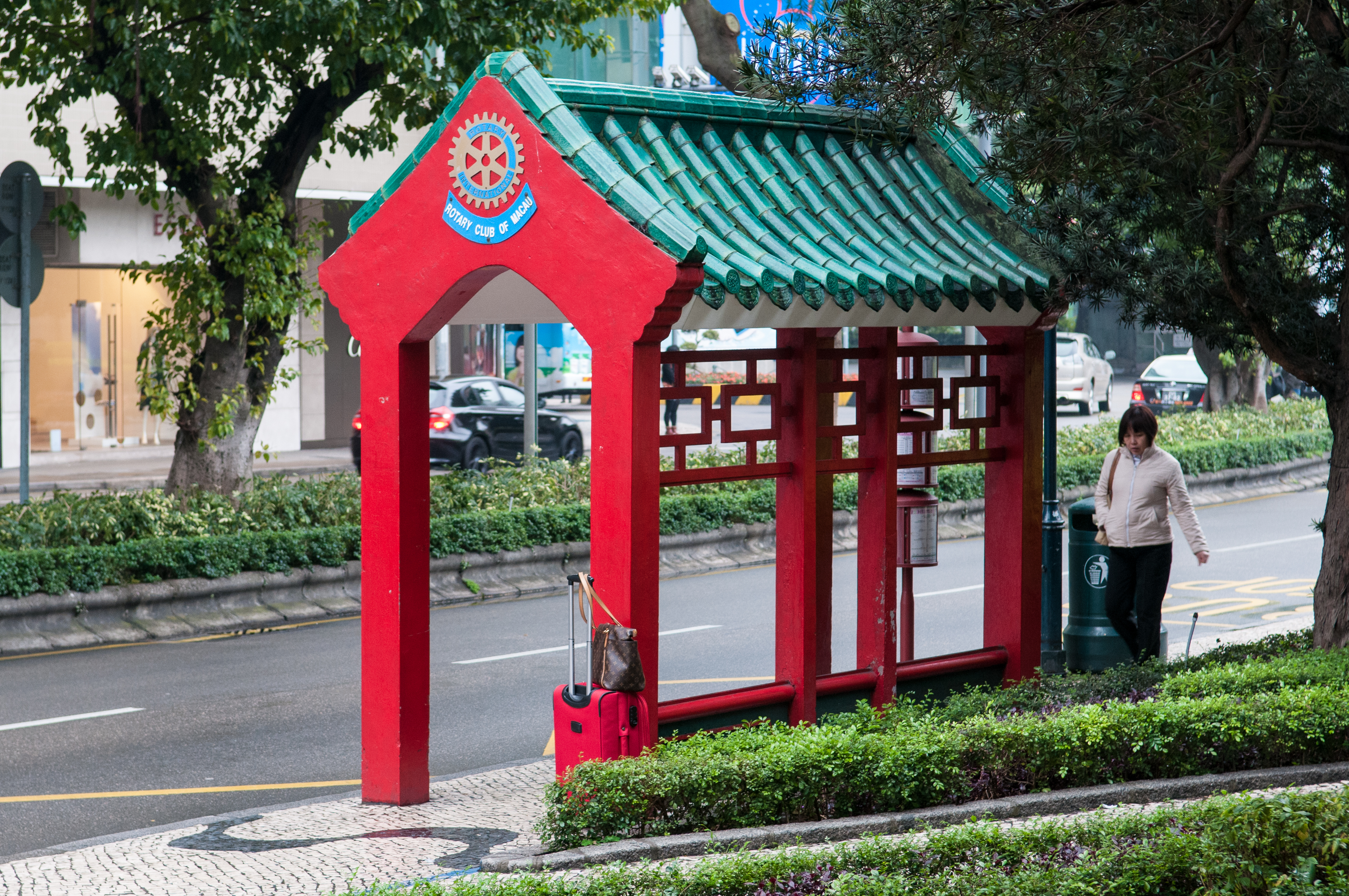 Bus stop in Macau